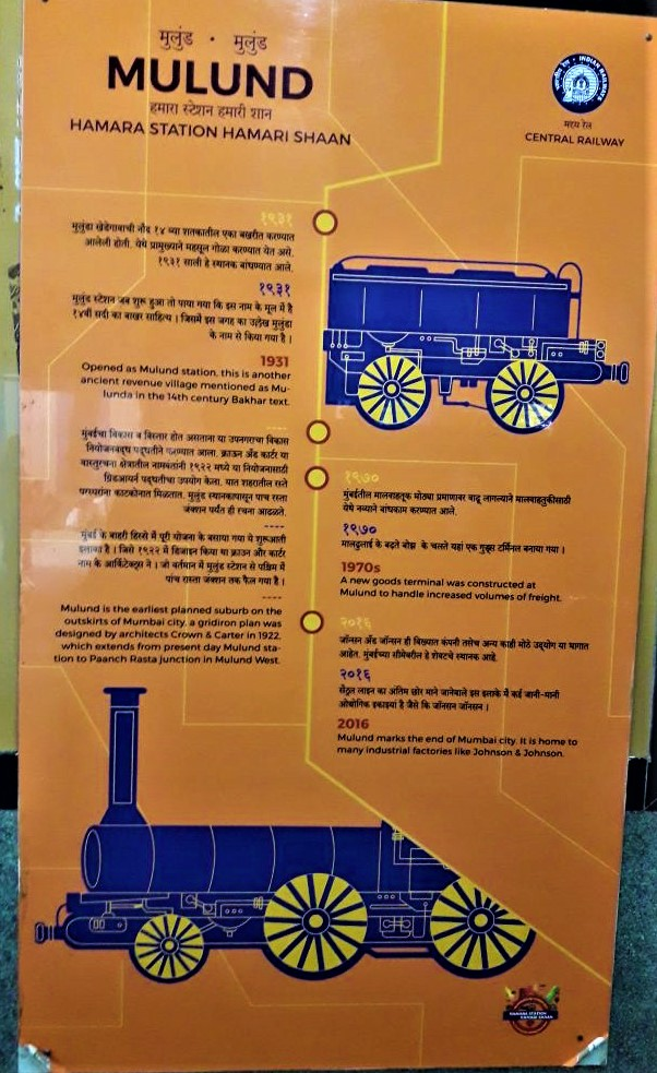 Station Banners Put at Mumbai Suburban Railway Stations.